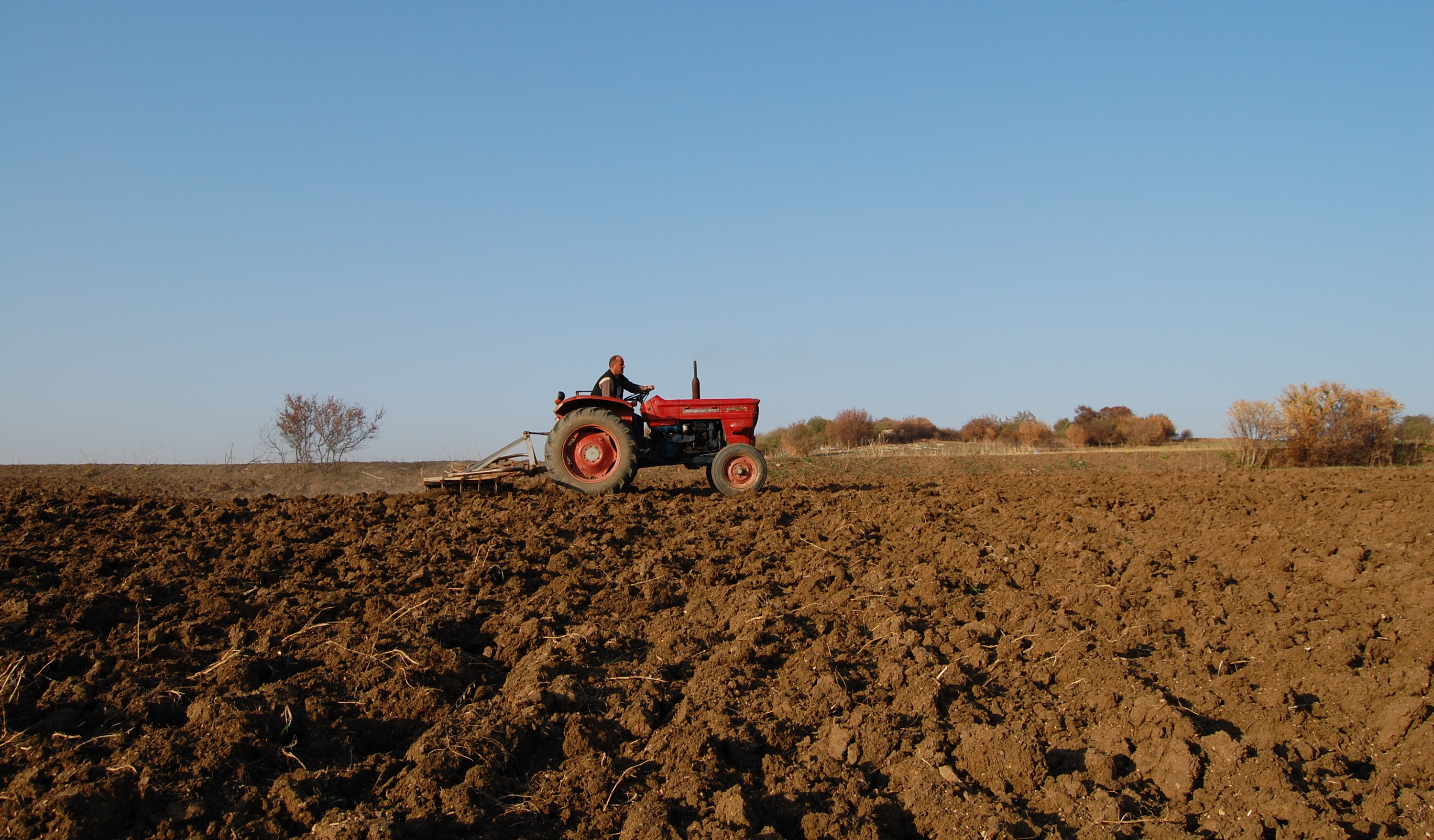 ne foto Besimi